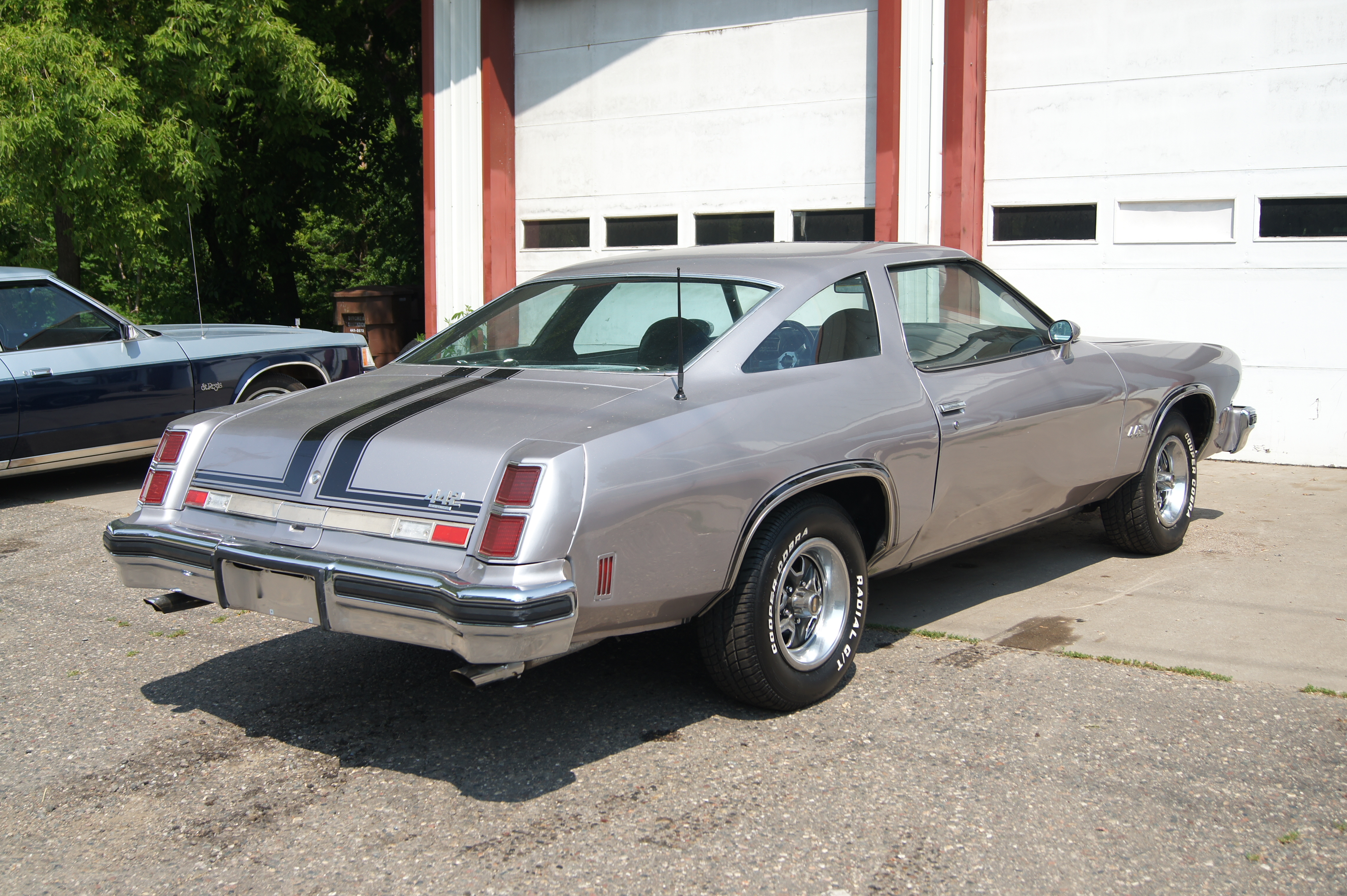 For more of my Car Pictures click the link below